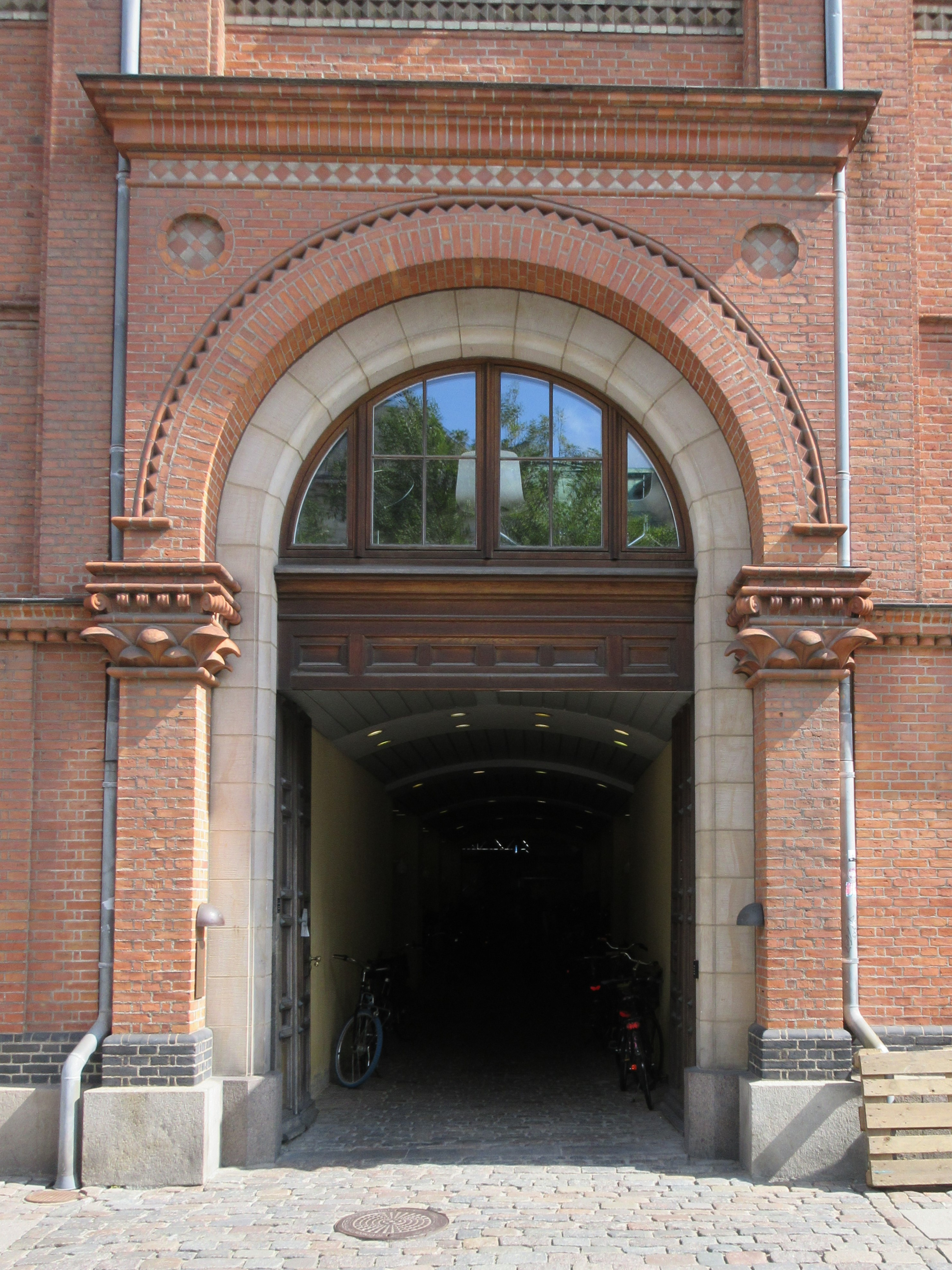 One of the two gates in Grøns Pakhus in Copenhagen, Denmark